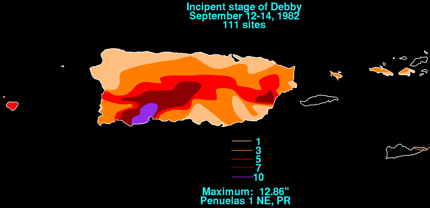 Storm total rainfall map of Hurricane Debby during September 1982.